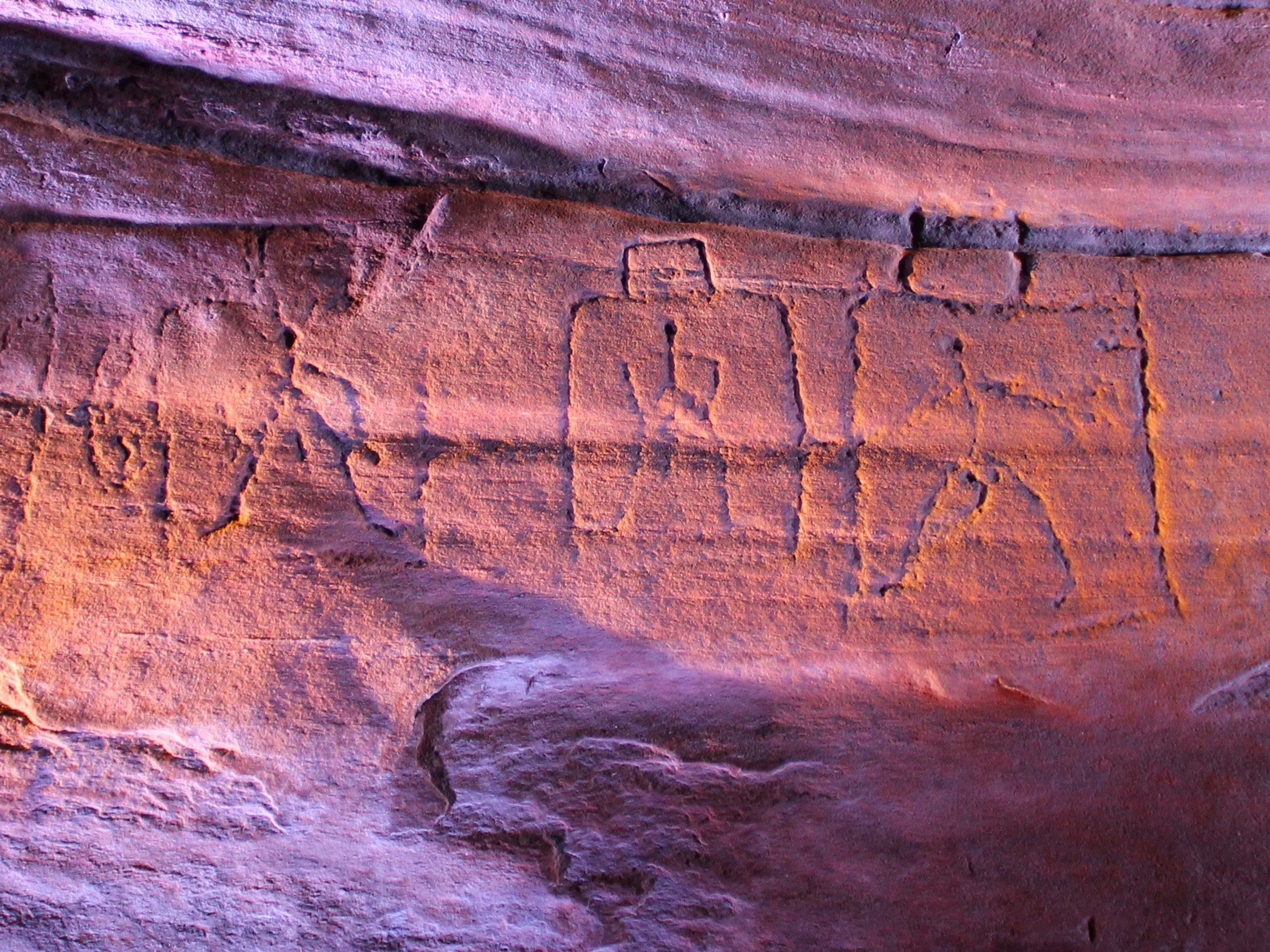 Petroglyphs at Hagood Mill Petroglyph Site, shown under colored lights for greater visibility.